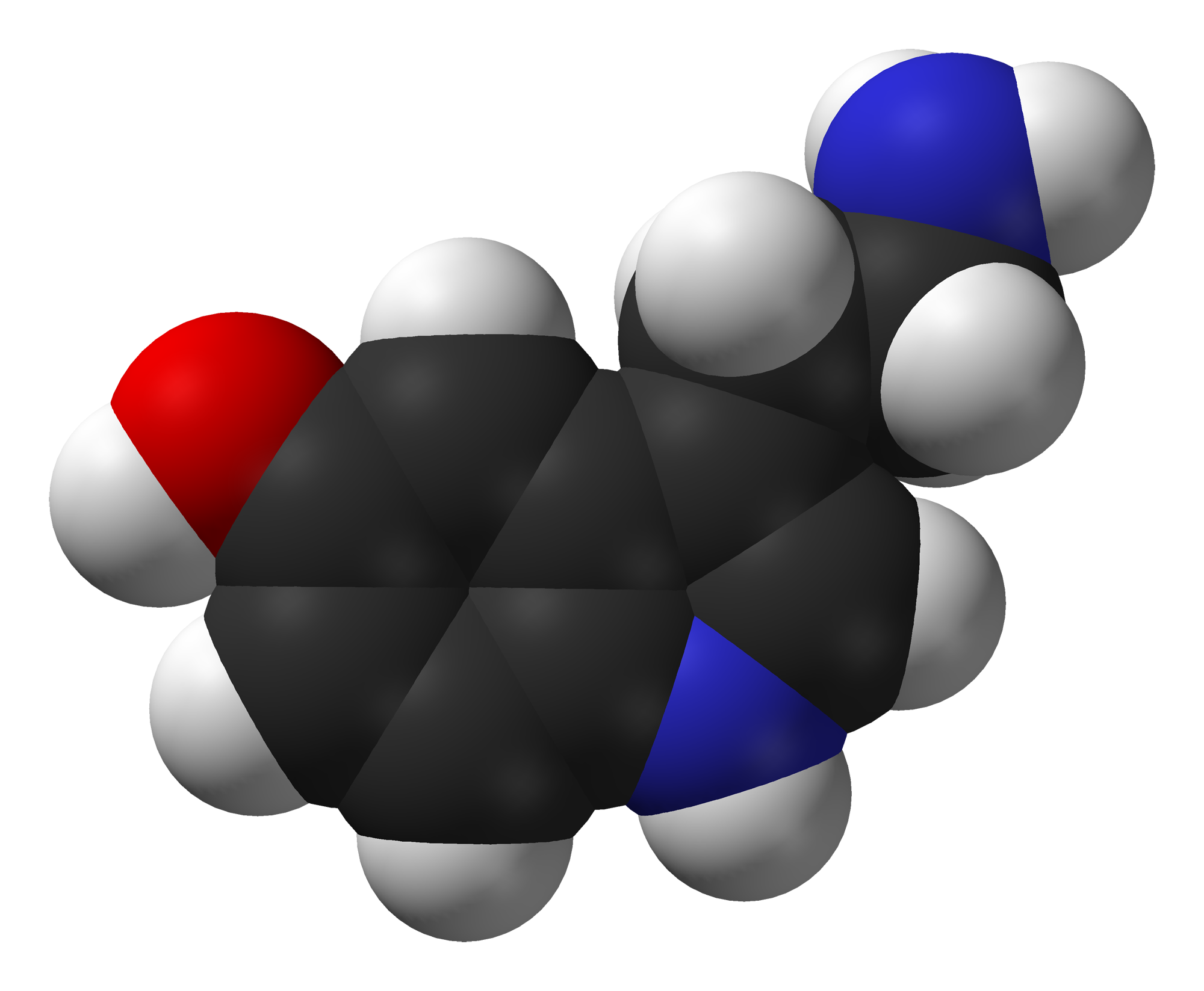 Space-filling model of the serotonin molecule, C10H12N2O. Colour code: Carbon, C: grey-black Hydrogen, H: white Nitrogen, N: blue Oxygen, O: red Structure based on that found in the salt serotonin hydrogen oxalate, determined by X-ray crystallography in Acta Chem. Scand. (1978) 32a, 267-270. Model manipulated in CrystalMaker 8.3. The structure of the serotonin cation from the above crystal structure was opened in Spartan Student 4.1, one hydrogen atom on the RNH3+ group was deleted, yielding the neutral serotonin molecule. Its structure was then refined with Hartree-Fock level of theory and the 3-21G basis set. Image generated in Accelrys DS Visualizer.